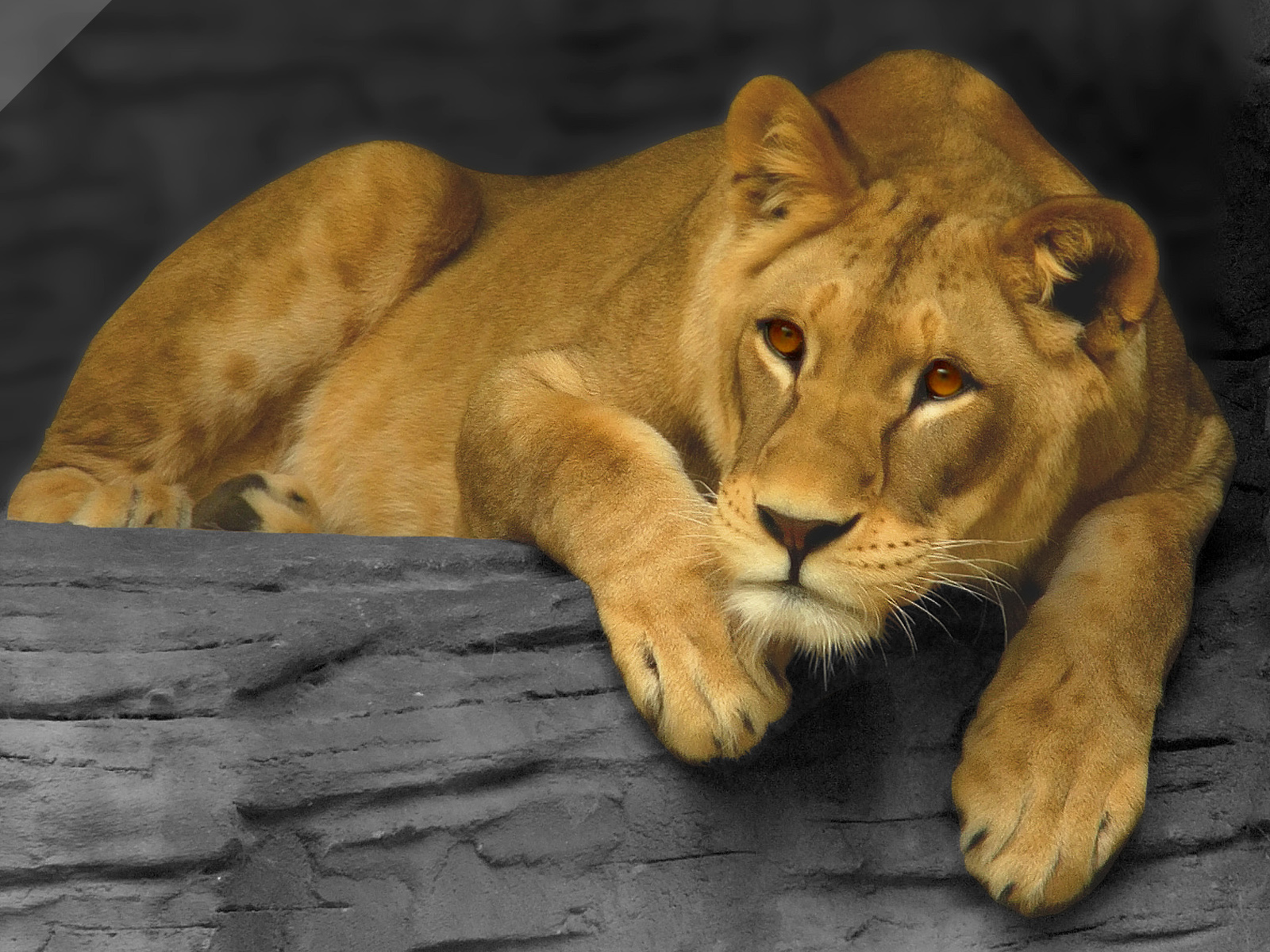 Lioness in a Czech zoo